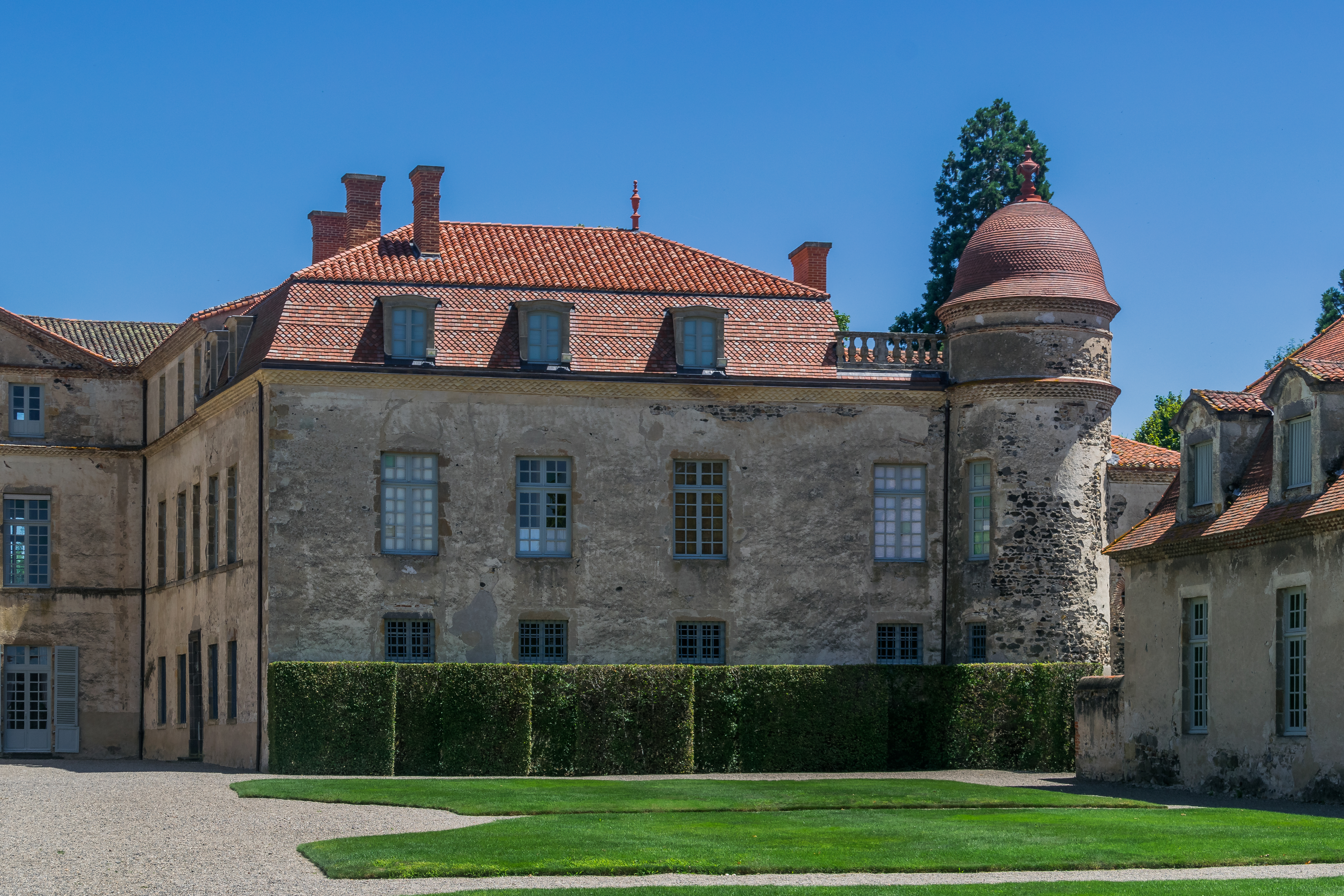 South wing of the Castle of Parentignat, Puy-de-Dôme, France